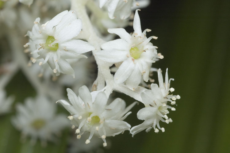 Neoastelia spectabilis flower detail. Image taken in the Australian National Botanic Gardens, Canberra